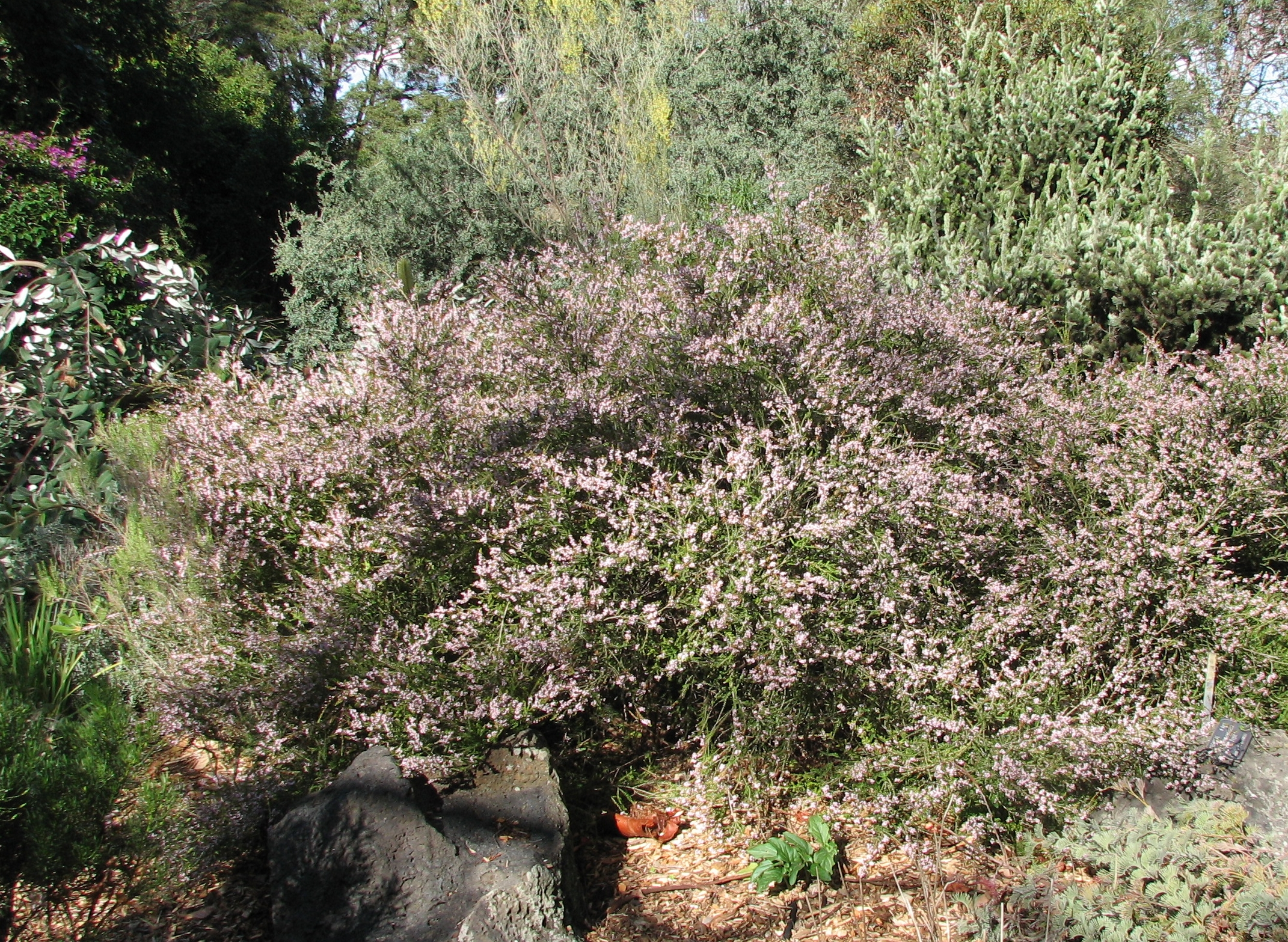 Thryptomene F.C. Payne (cultivated, labelled), Burnley Gardens, Victoria, Australia